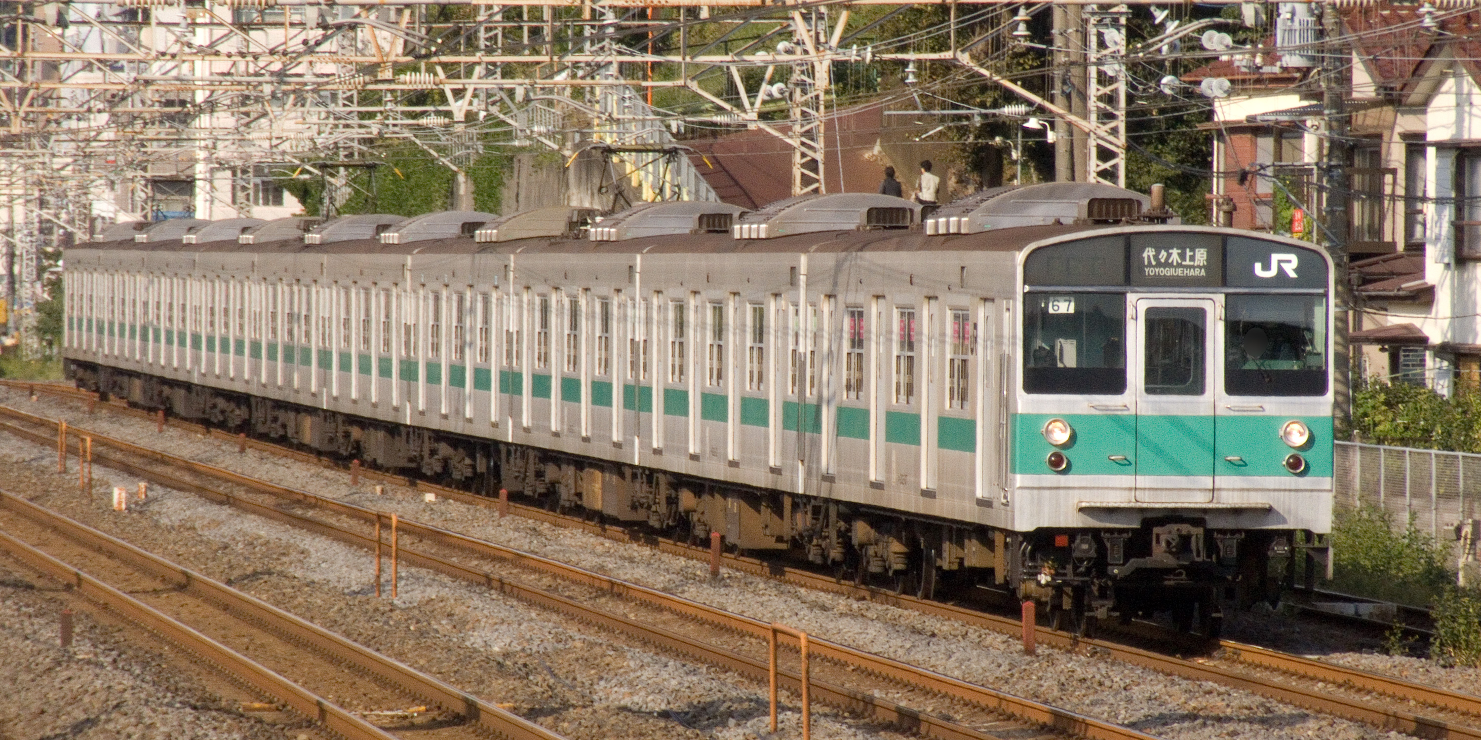 JR East 203 series EMU set 67 on a Joban Line/Chiyoda Line inter-running service